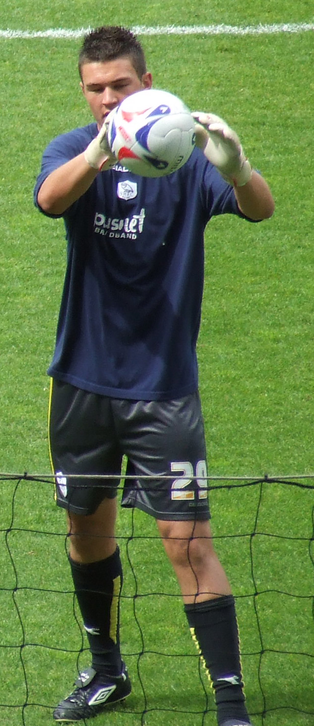 Richard O'Donnell at Hillsborough Stadium